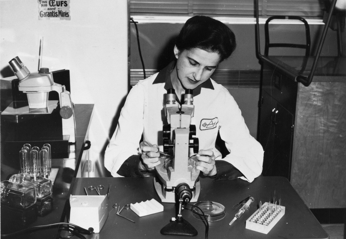 Biologist Beatrice Mintz (b. 1921) was a professor at the University of Chicago, 1946-1960, before joining the Institute for Cancer Research (now called the Fox Chase Cancer Center) and then becoming a professor at the University of Pennsylvania in 1965. She had attended Hunter College, (A.B., 1941) and University of Iowa (Ph.D., 1946)